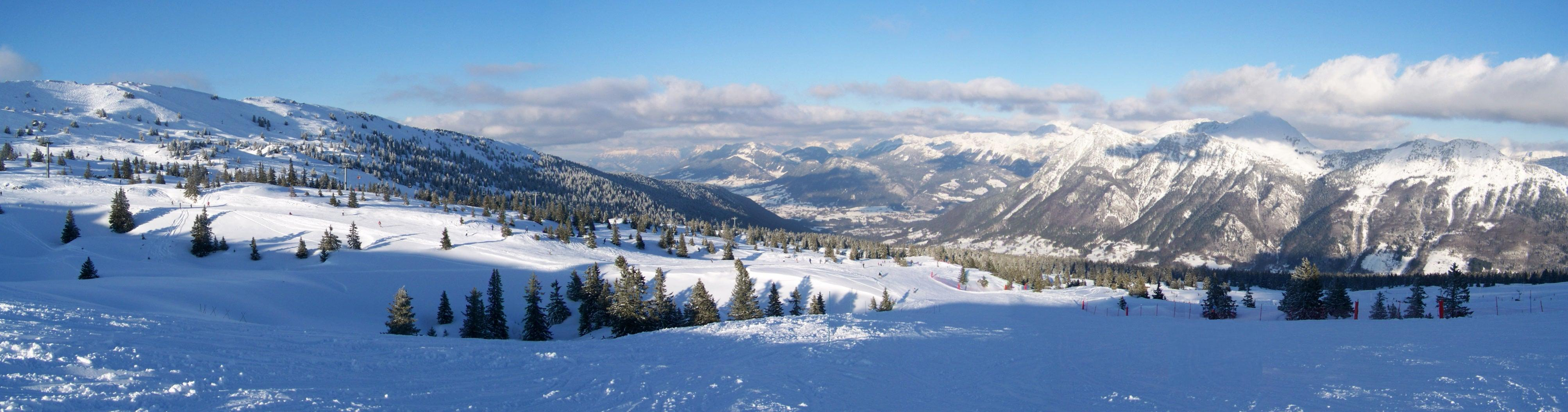 Landscape on the Bauges national park seen from the top of Le Margériaz ski resort in Savoie, France.